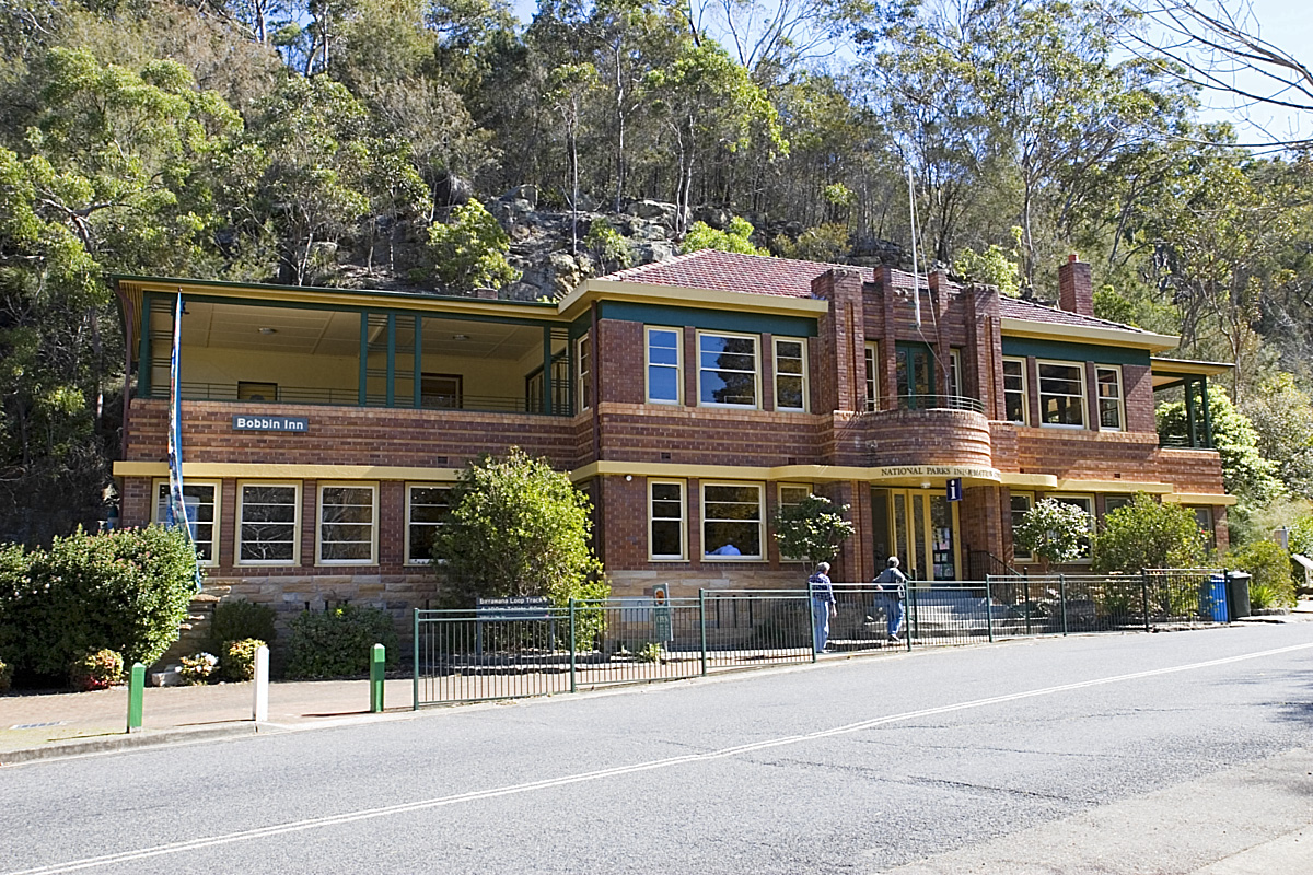 The Bobbin Inn building at Bobbin Head, taken by me 22AUG2006 Mike Funnell 22:14, 24 August 2006 (UTC)